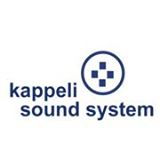 Kappeli Sound System band official logo 2013